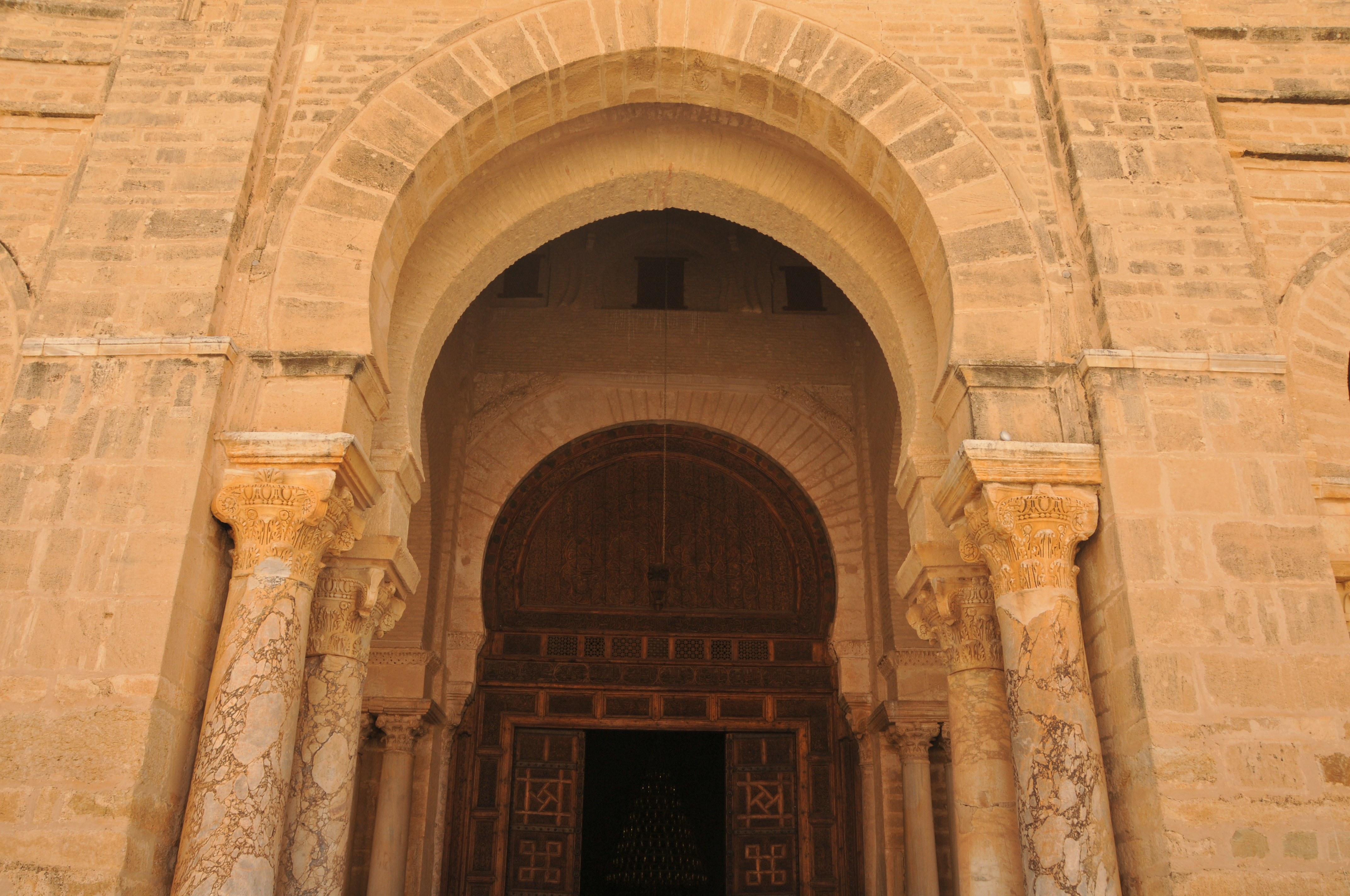 Main entrance (horseshoe arch portal) of the Prayer hall—Great Mosque of Kairouan, Tunisia.